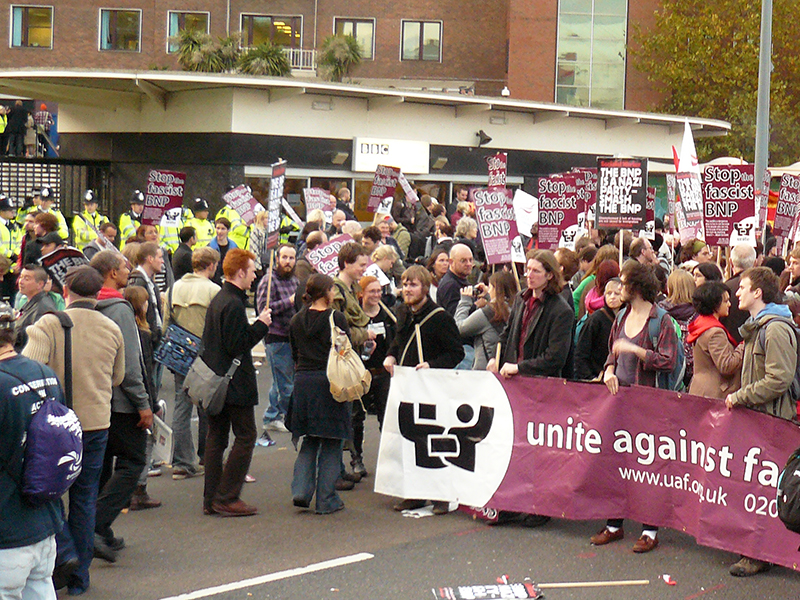 Protest outside BBC Television Centre over Nick Griffin's appearance on Question Time